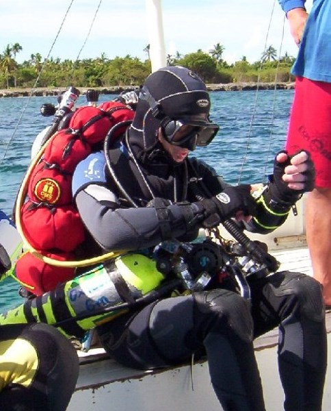 Modification showing only one diver -Technical diver preparing for a mixed-gas decompression dive in Bohol, Philippines. Note the backplate and wing setup with sidemounted stage tanks containing EAN50 (left side) and pure oxygen (right side). This is only a cropped version of an existing Wikimedia photo Decompression Dive Preparation.jpg. This one shows just one of the divers instead of two This is only a cropped version of an existing Wikimedia photo Decompression_Dive_Preparation.jpg. This one shows just one of the divers instead of twoHowieKor (talk) 22:30, 18 November 2011 (UTC)